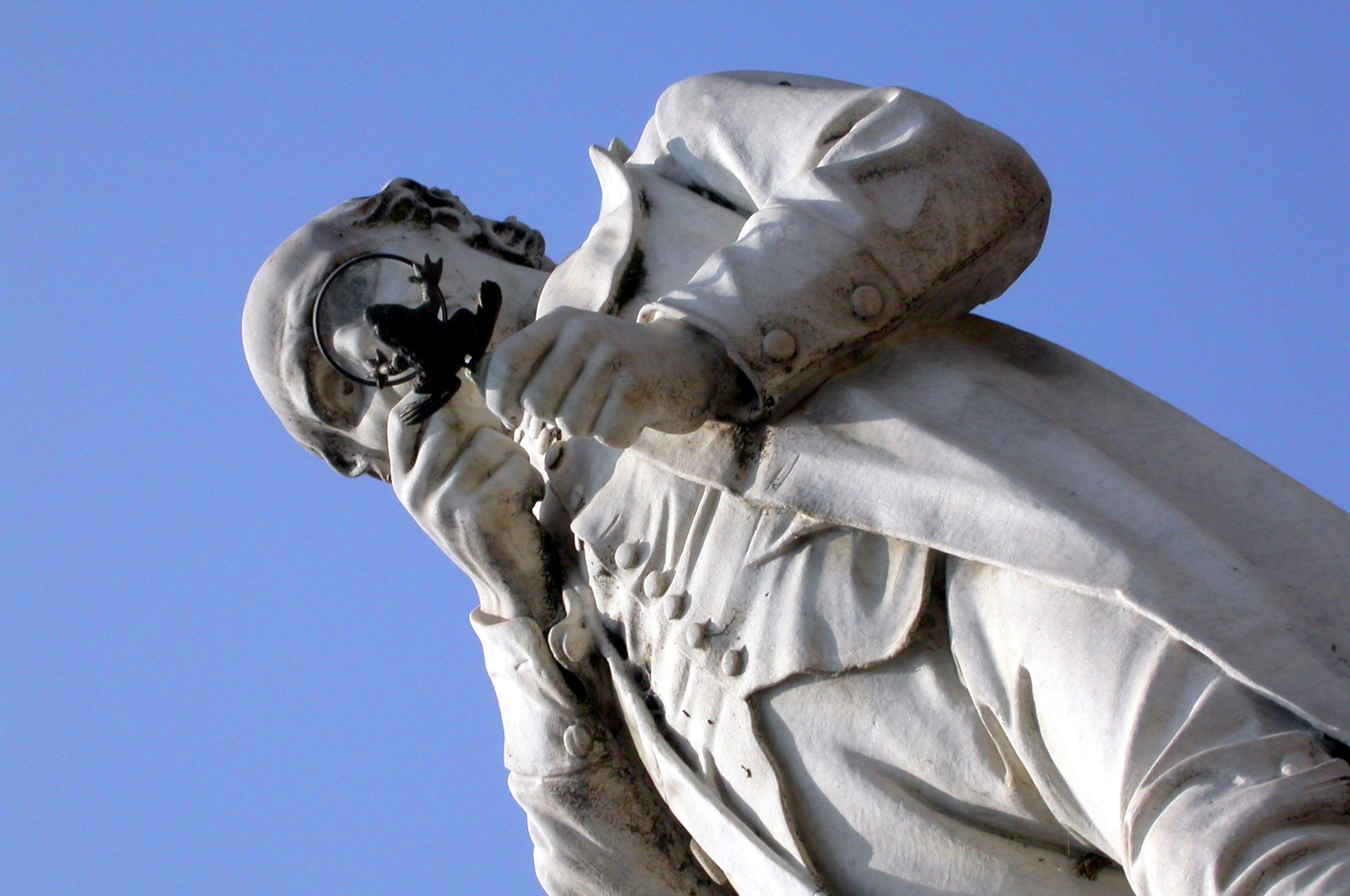 The monument of the Italian biologist Lazzaro Spallanzani (Scandiano, Italy).